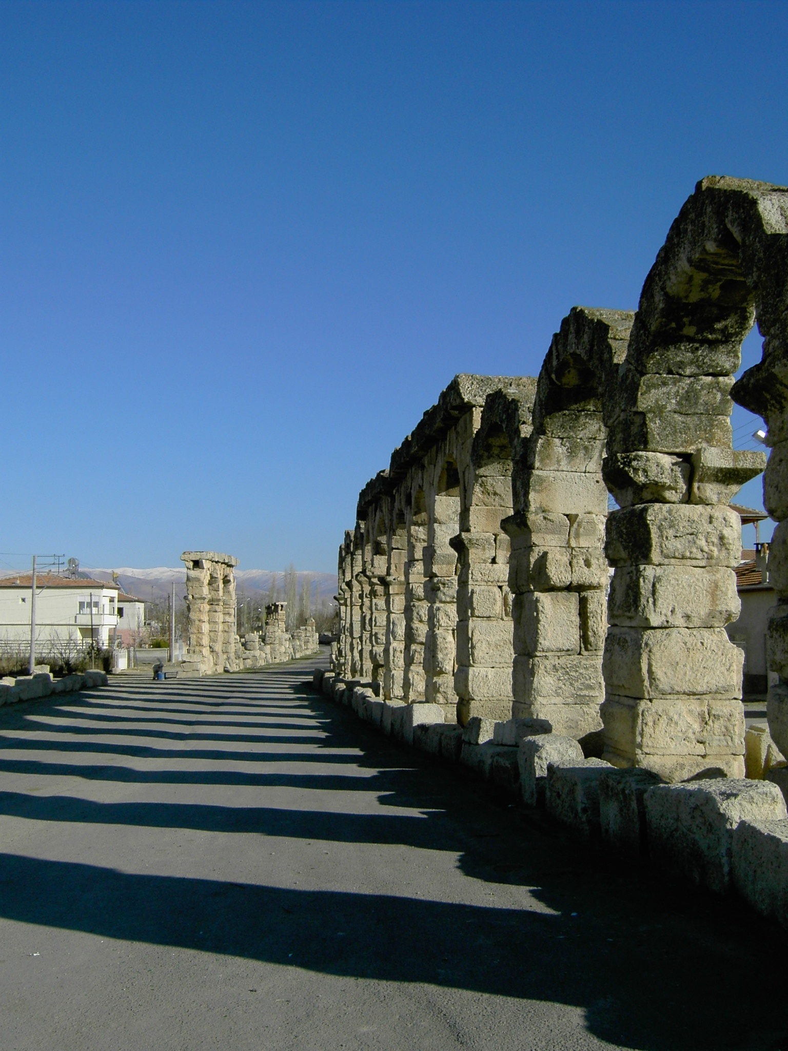 The Roman aqueduct of Tyana